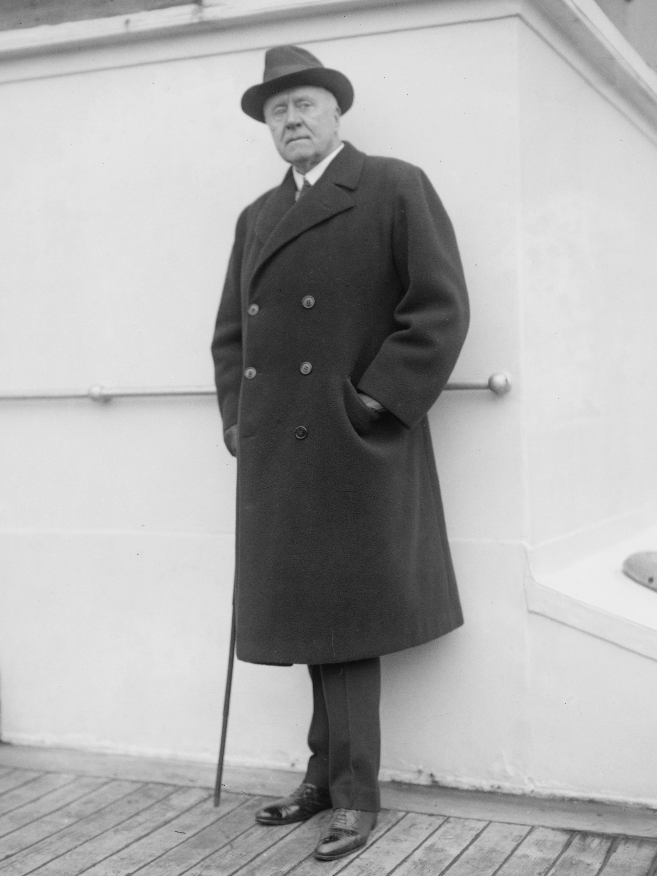 Sir Herbert Beerbohm Tree